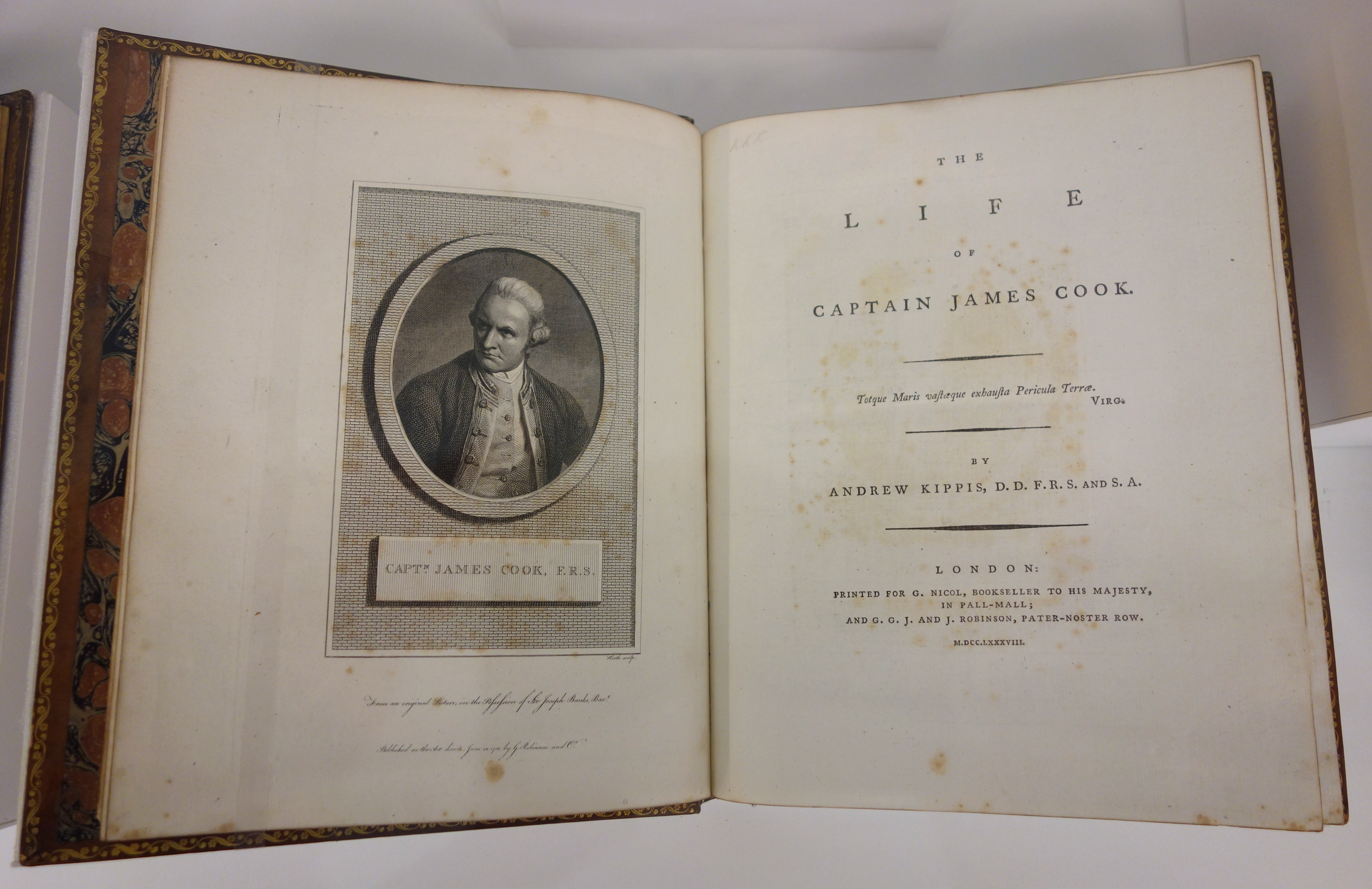 James Cook exhibit, Royal Ontario Museum, Toronto, Canada, USA. This work is in the public domain because the author and artist(s) died more than 70 years ago.